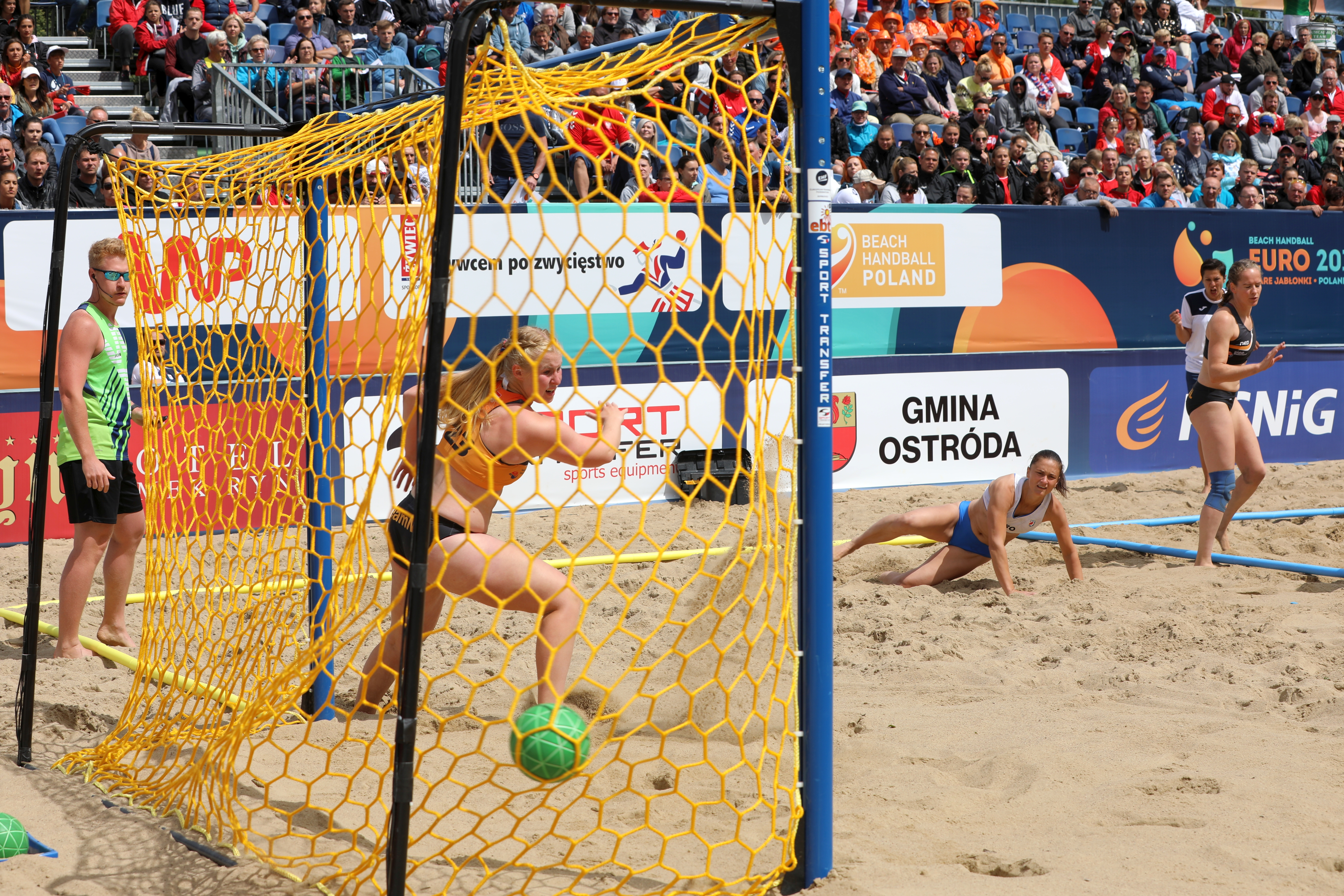 Beach handball Euro; Day 6: 7 July 2019 – Women's Bronze Medal Match – Croatia-Netherlands 0:2 (14:23, 20:22)